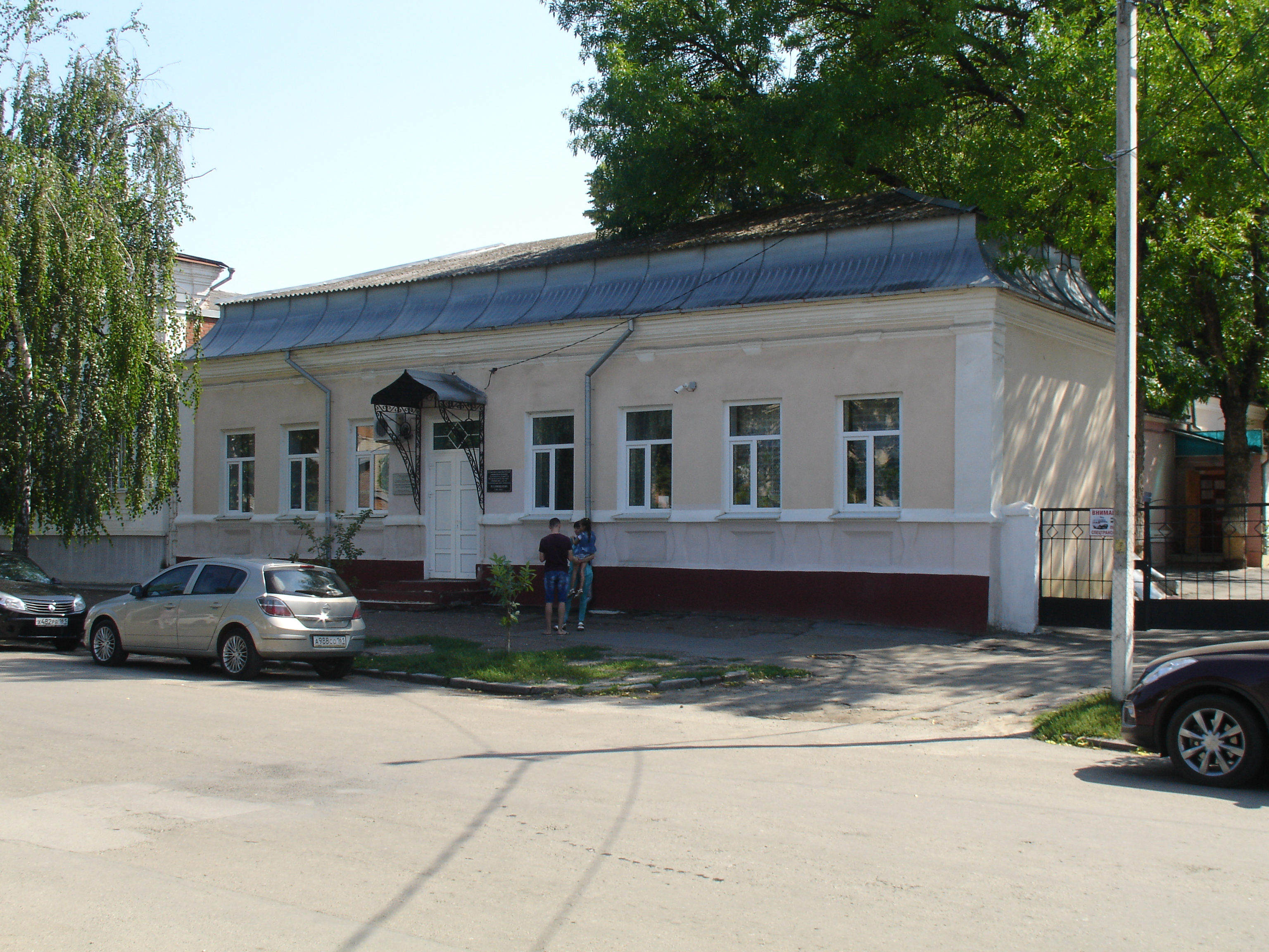 House and Museum of Samoilovich. 46 Leningradskaya str., Azov, Rostov Oblast, Russia